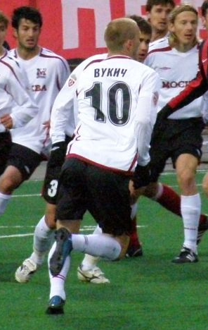 Zvonimir Vukić as a player of FC Moscow